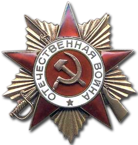 Soviet Order of the Patriotic War